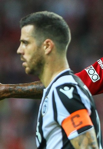 Spartak Moscow VS. PAOK 14 august 2018